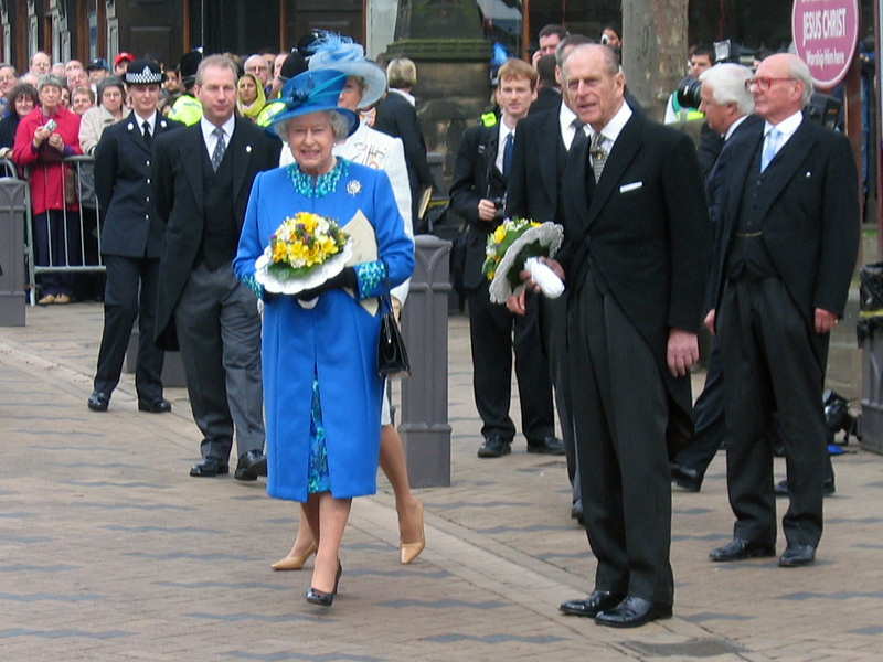 Queen Elizabeth II and Prince Philip during a visit to Wakefield Cathedral for the Maundy money Ceremony.